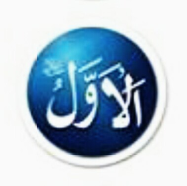 Al-'Awwal / The First / The Beginning-less is a name of God in Islam, is a name of Allah.